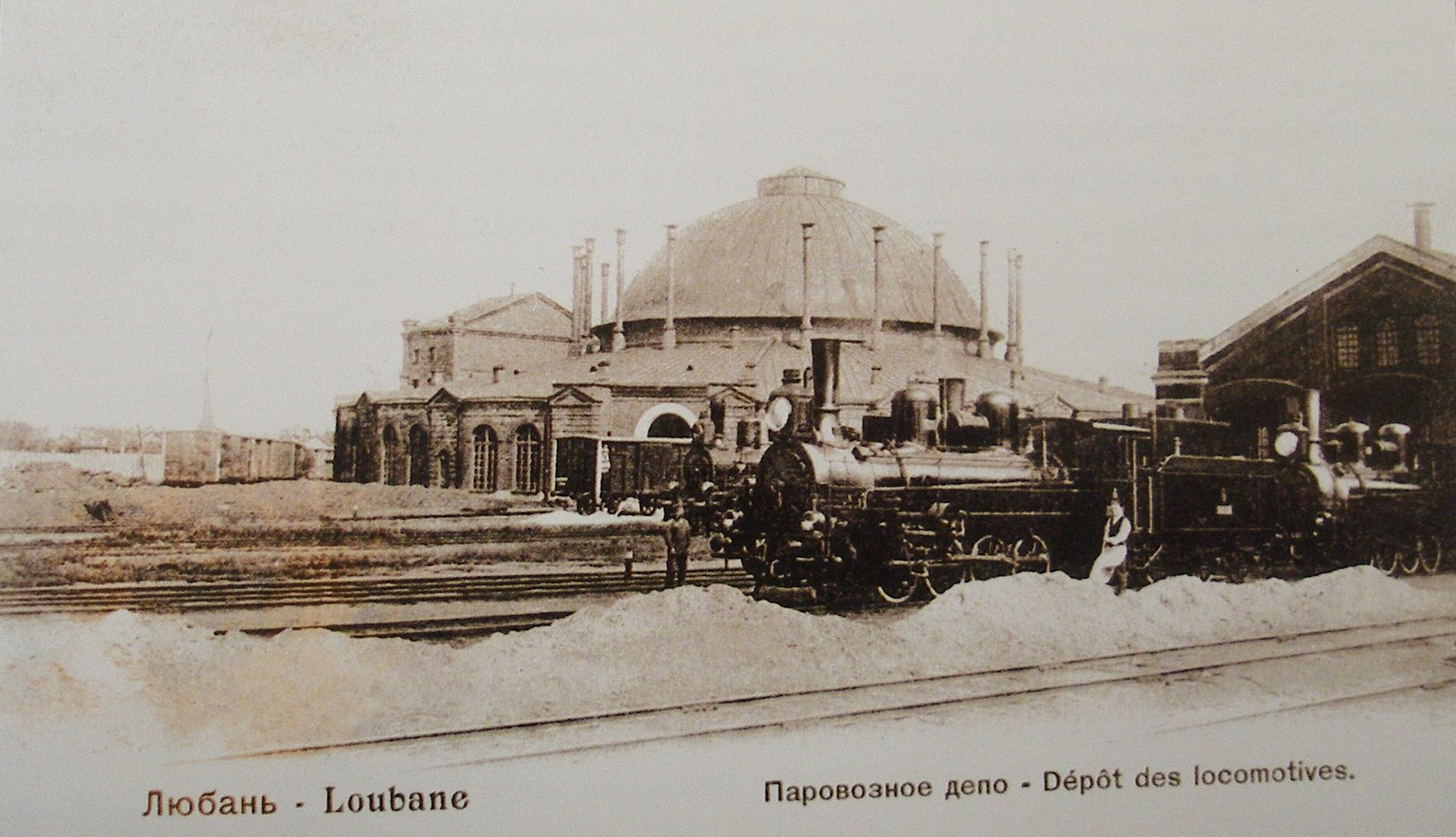 Luban station. Roundhous. Steam locomotive. Moscow-Saint Petersburg Railway